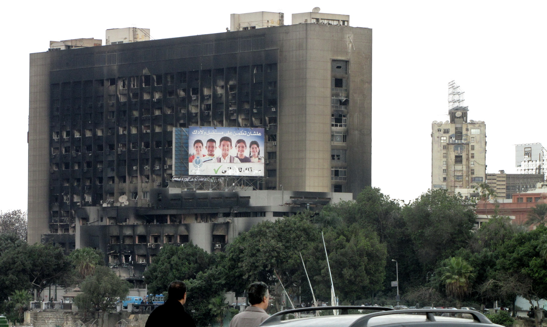 The burnt-out main headquarters of the then-ruling NDP-National Democratic Party in Cairo as seen from the Qasr al-Nil Bridge, the main route used by protesters to reach Tahrir Square, during the Egyptian Revolution of 2011. The billboard hosts an advertisement for the NDP, which can be translated as saying: "So you can rest assured about your children's future." To the right, beyond the trees, the pink-colored building of the Egyptian Museum can be seen.